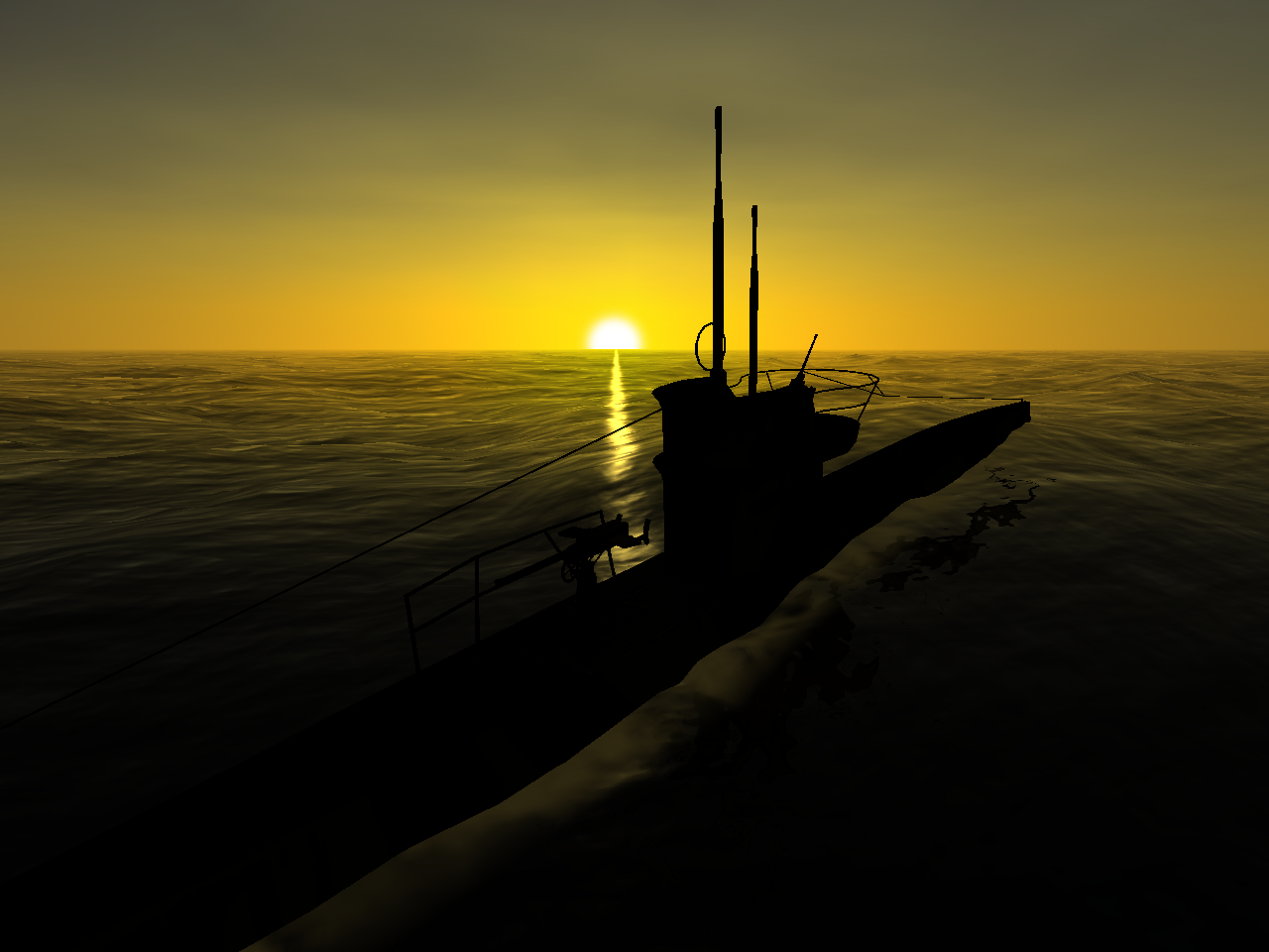 Screenshot of the game "Danger from the Deep"